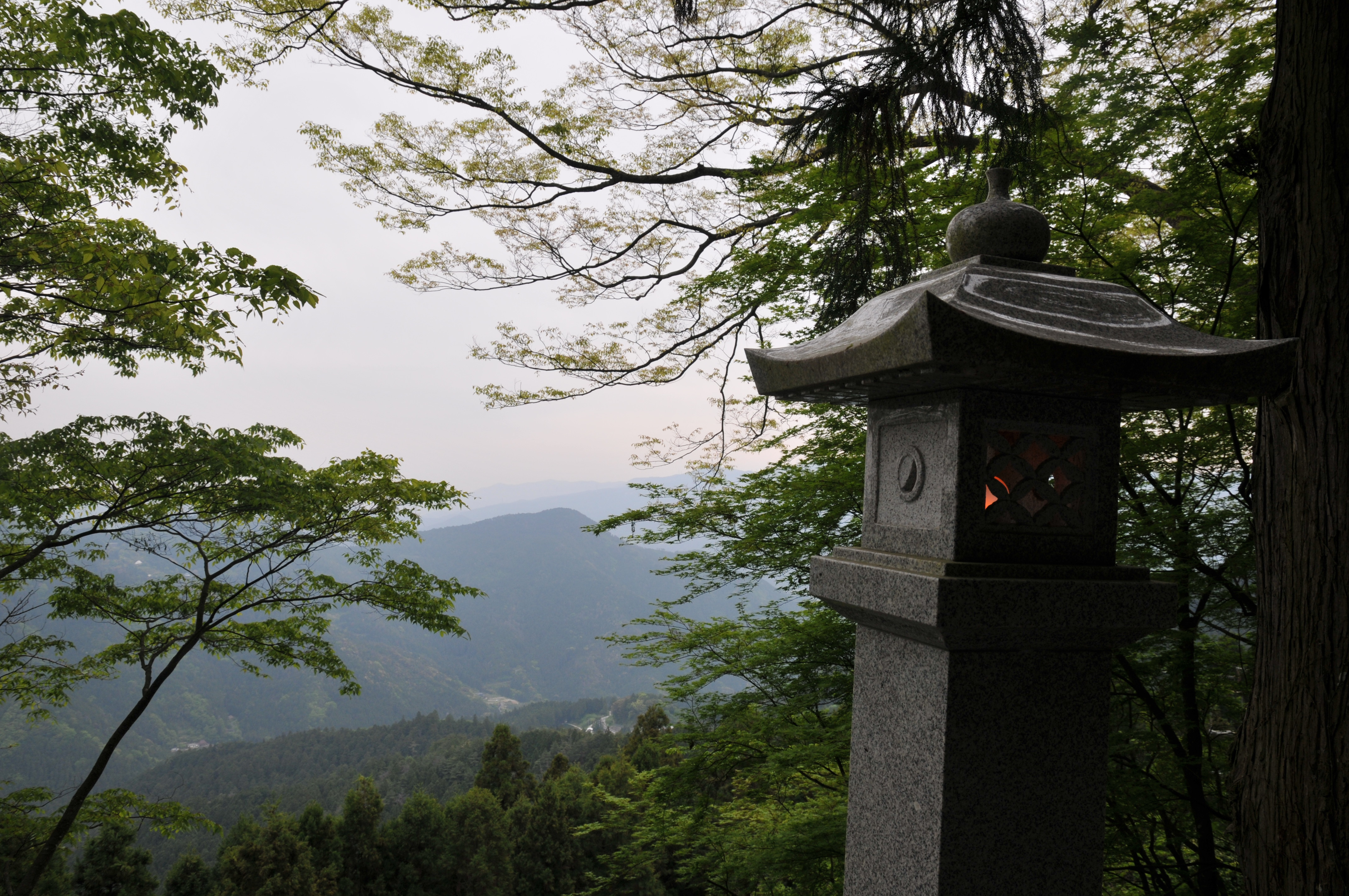 View from Shōsan-ji approach